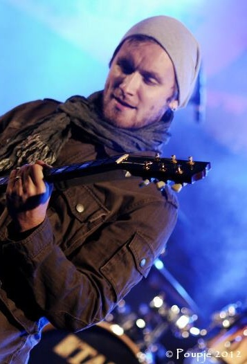 Lukas Koranda